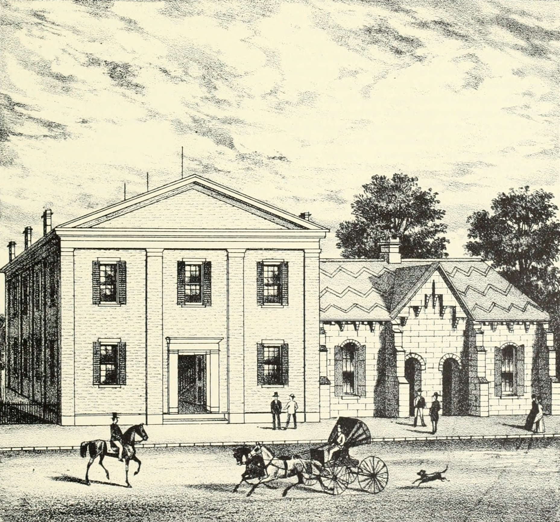 Randolph County Courthouse (Illinois) c 1883